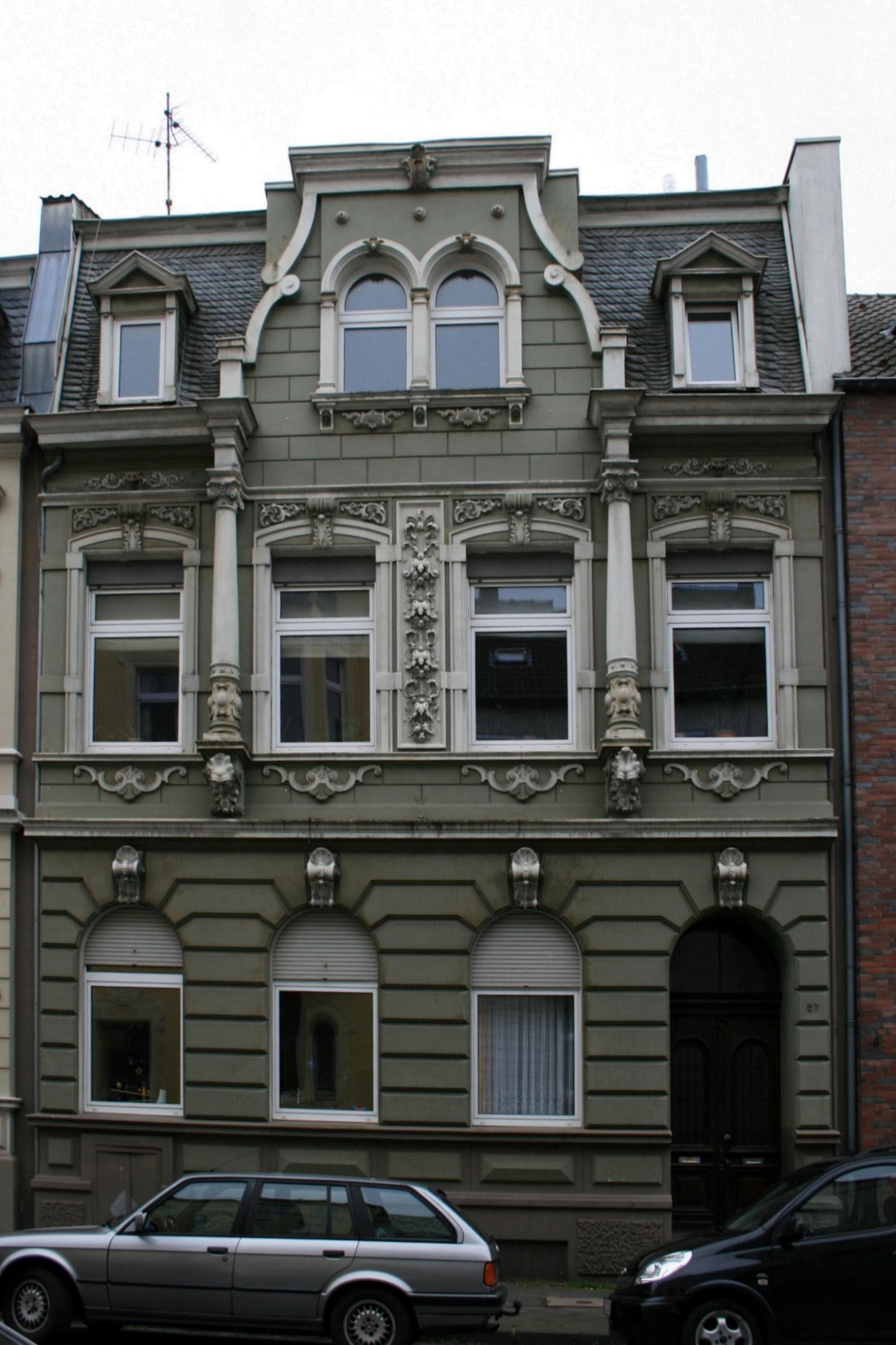 Cultural heritage monument No. St 037 in Mönchengladbach